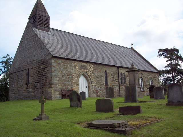 St Michael's and All Angels Church, Great Edstone Above the door is a Saxon sundial, which bears the Latin inscription 'Orolgium Viatorum' - 'The Wayfarers Clock' above the dial.